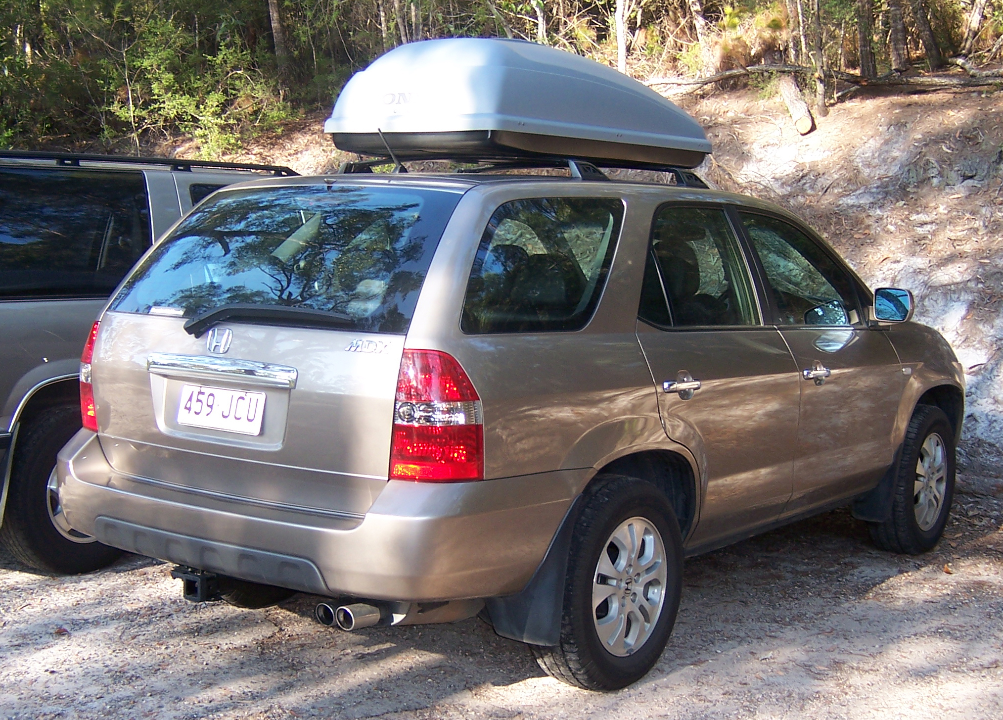 2003–2006 Honda MDX wagon. Photographed on Fraser Island, Queensland, Australia.